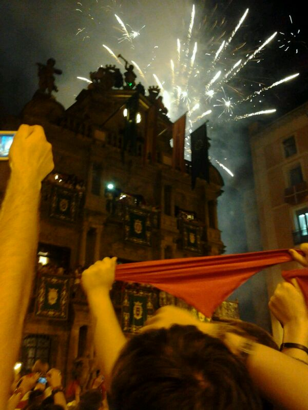 Fuegos artificiales en el Pobre de mí.